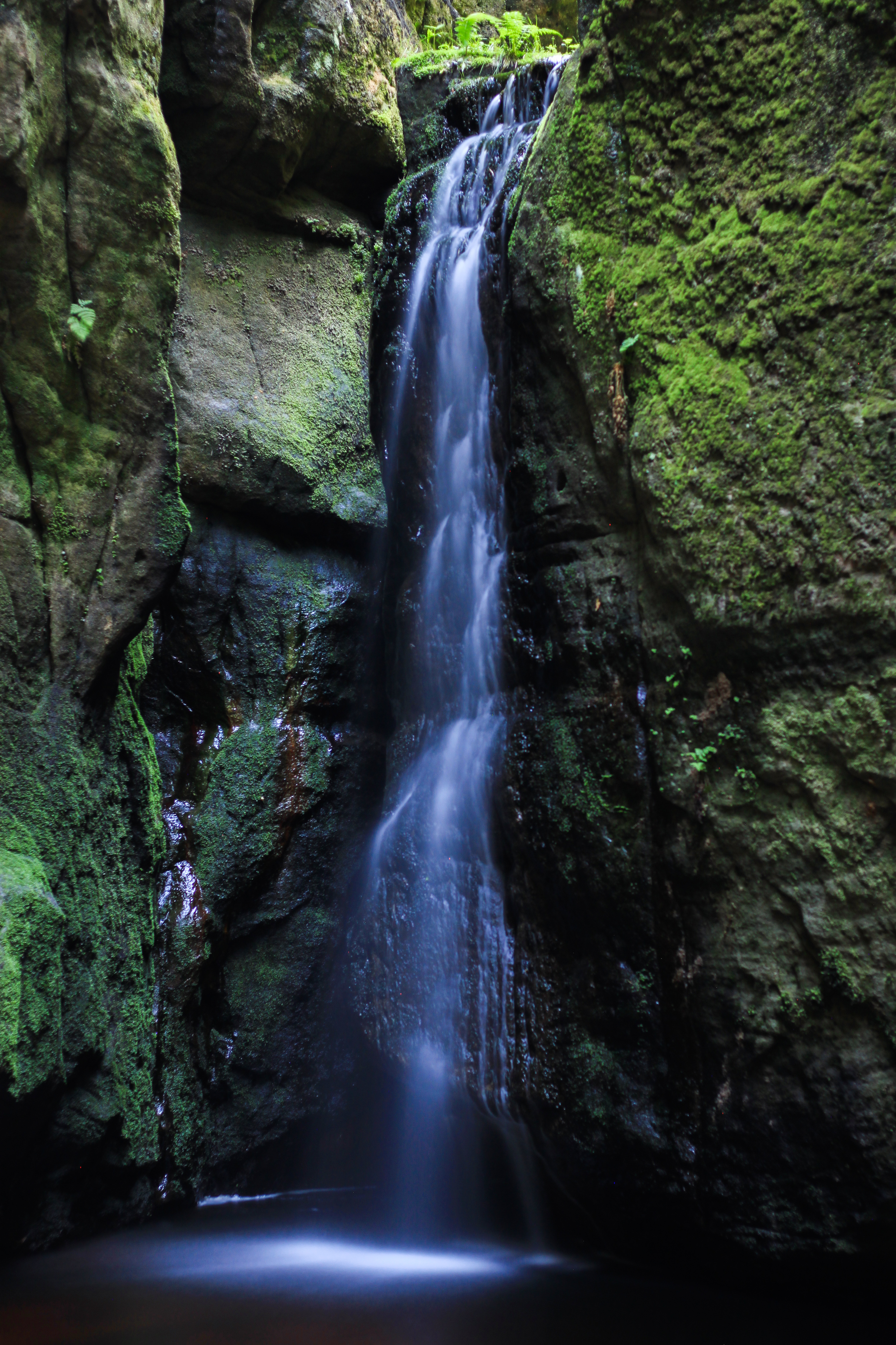 A small waterfall in Adršpach-Teplice Rocks